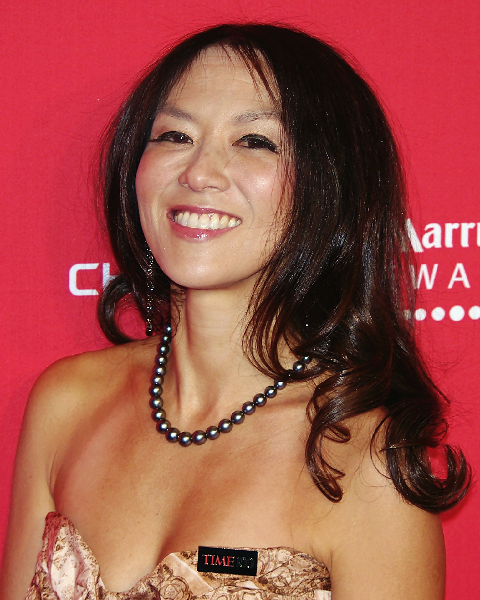 Amy Chua at the 2012 Time 100 gala.